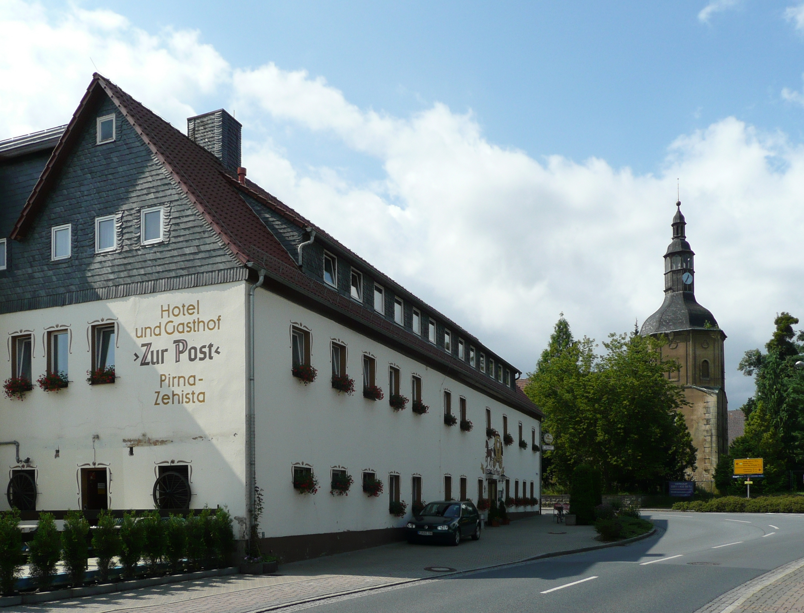 This image shows the hotel and restaurant "Zur Post" with Zehista Castle in the background in Zehista.